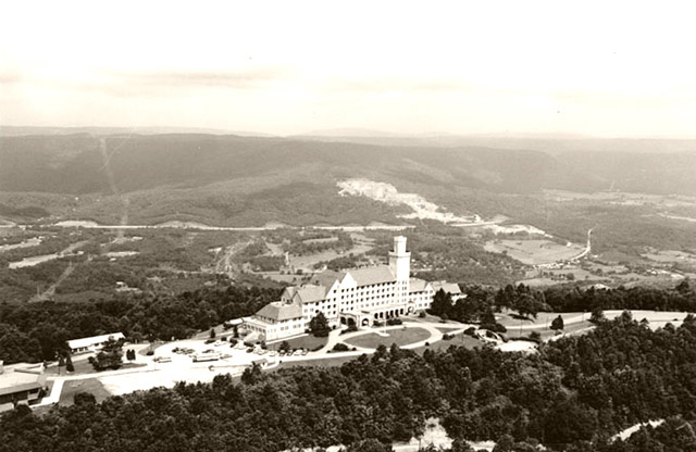 An old areal photo of Carter Hall, (formerly known as the Lookout Mountain Hotel or the "Castle In The Clouds") which is currently owned and operated by Covenant College as a student residence building in Lookout Mountain, Georgia.